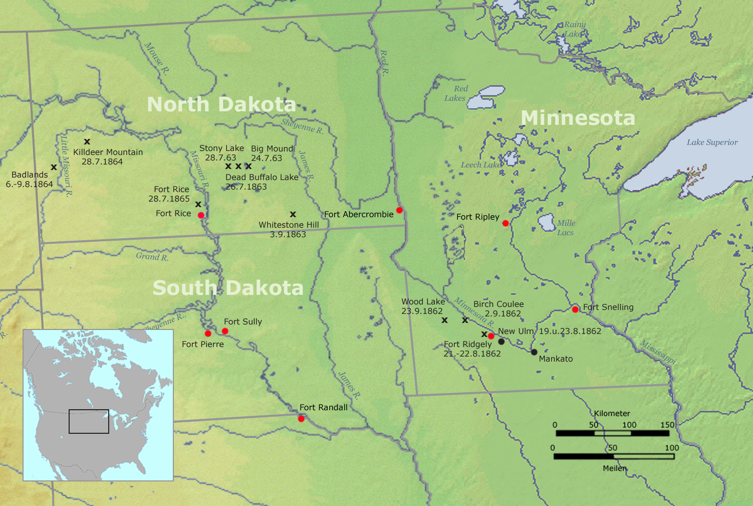 Battles of the Sioux Uprise in Minnesota 1862